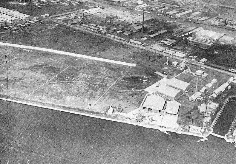 Kizu-gawa Airfield in 1930s